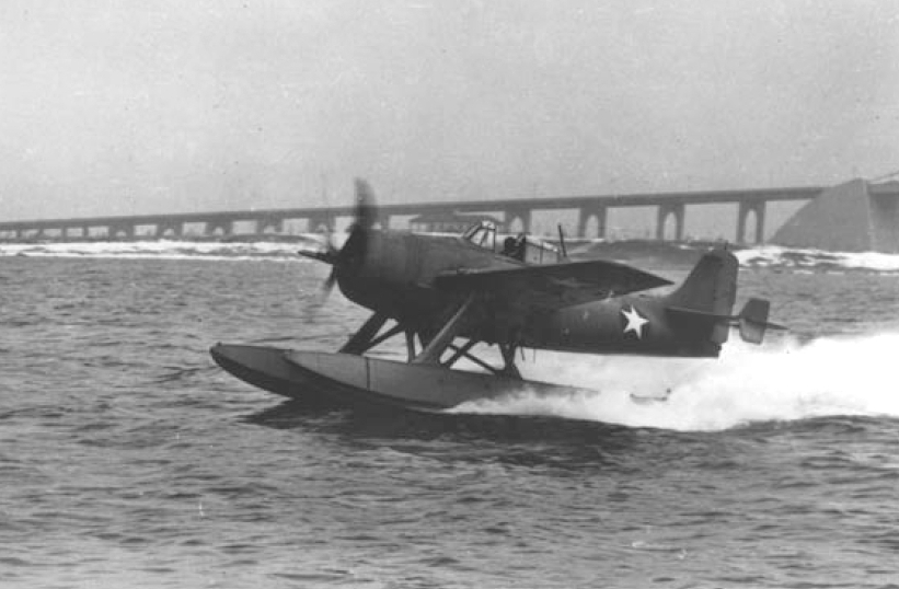 A U.S. Navy Grumman F4F-3S Wildcatfish (BuNo 4038) takes off near Naval Air Station Norfolk, Virginia (USA), in February 1943.